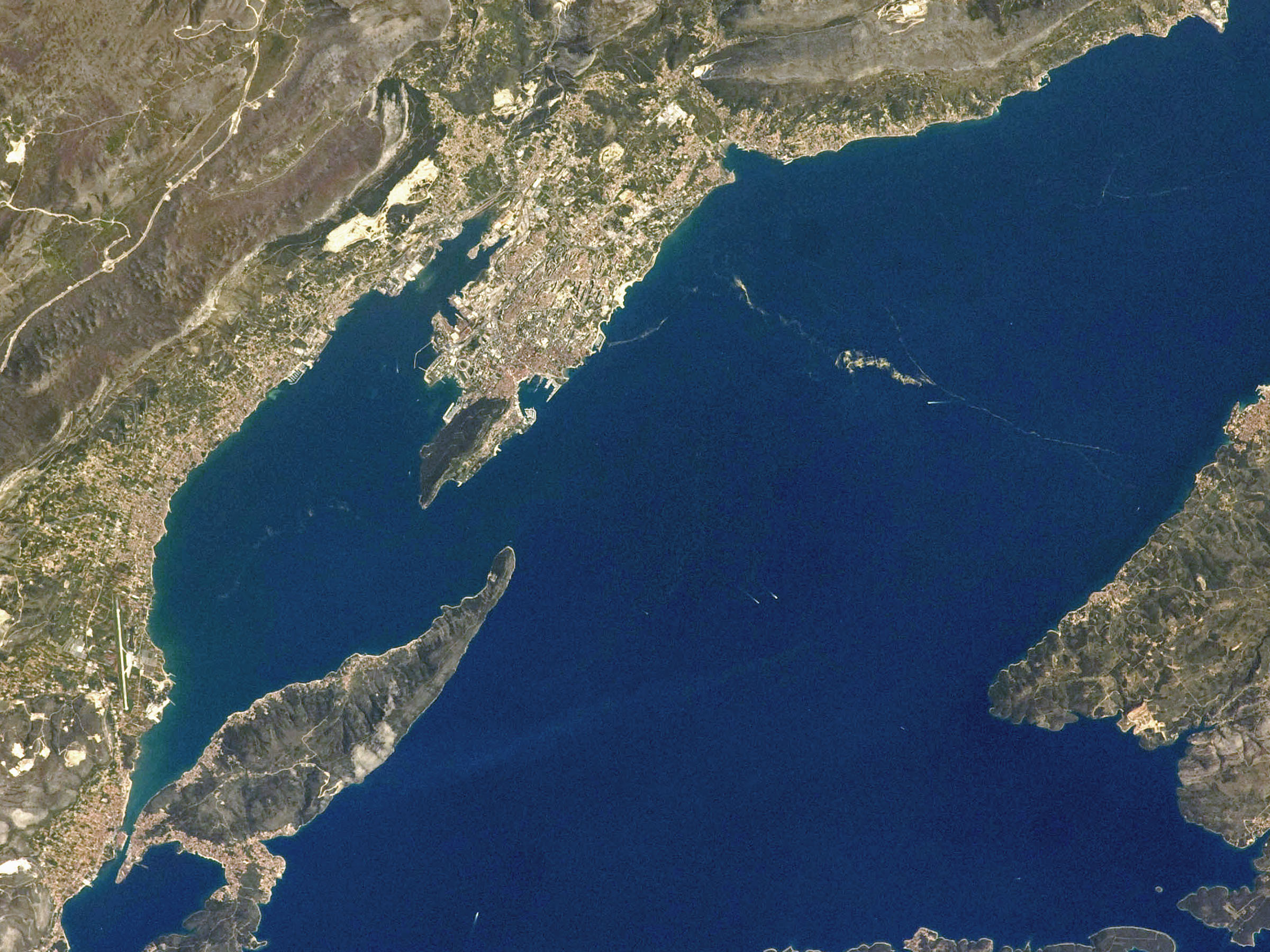 Split region, Croatia as photographed by an Expedition 19 crewmember on the International Space Station